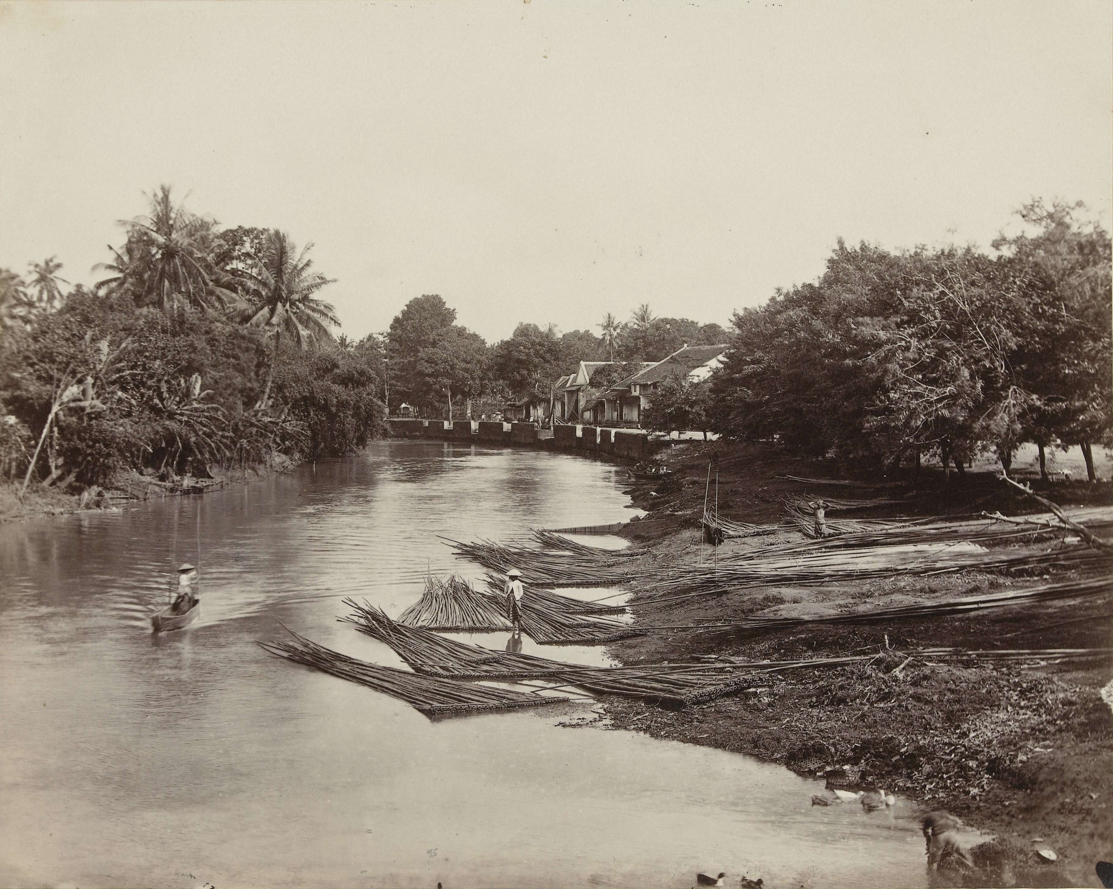 Loggers in Pekalongan, Dutch East Indies, working along a river. Note the floating logs.